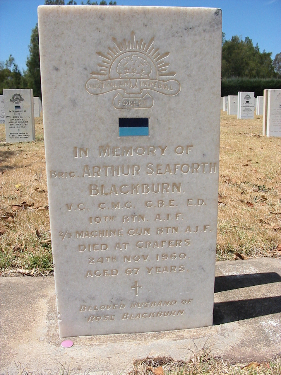 Blackburn's grave taken by Trevor Peart 30 October 2006